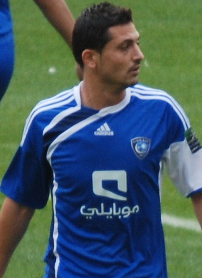 Mirel Matei Rădoi (nicknames: „Zorro”, „The Captain”), (born March 22, 1981 in Drobeta-Turnu Severin), is a Romanian football midfielder, who can also play as center back and rightback, who currently plays for Al-Hilal in Saudi Arabia. He is considered a symbolic player for Steaua Bucureşti, along with Marius Lăcătuş.